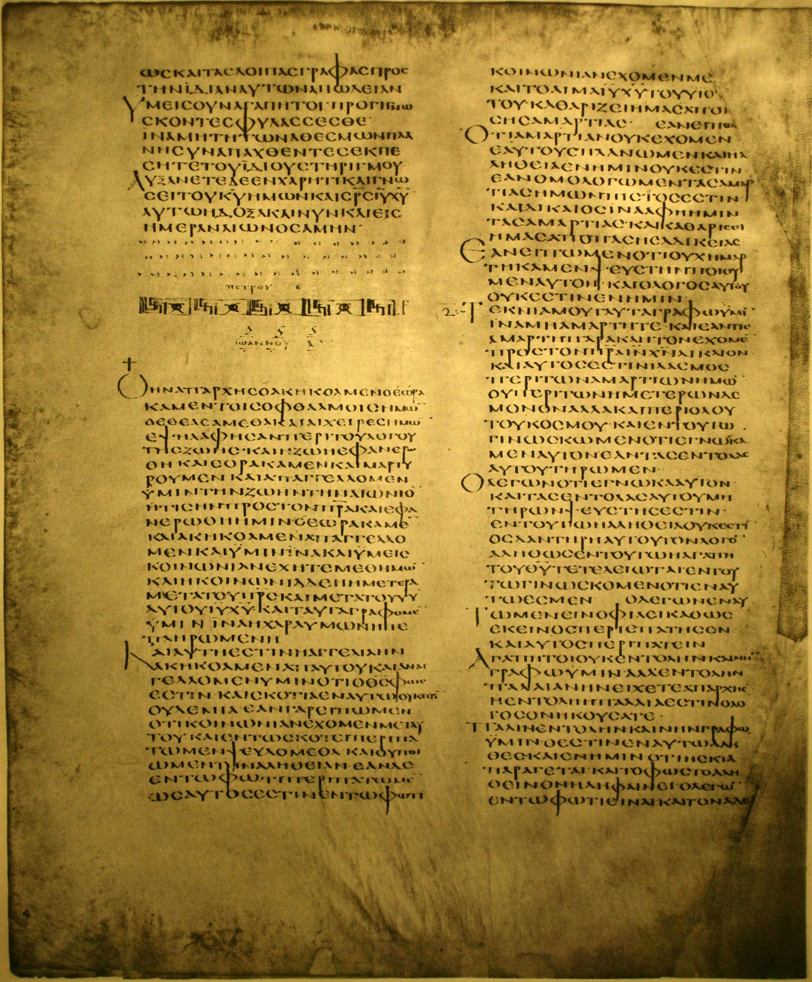 Codex Alexandrinus; the ending of 2. Peter and the beginning of 1. John